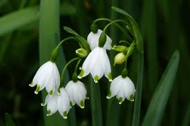 Leucojum aestivum at Kızılırmak Delta